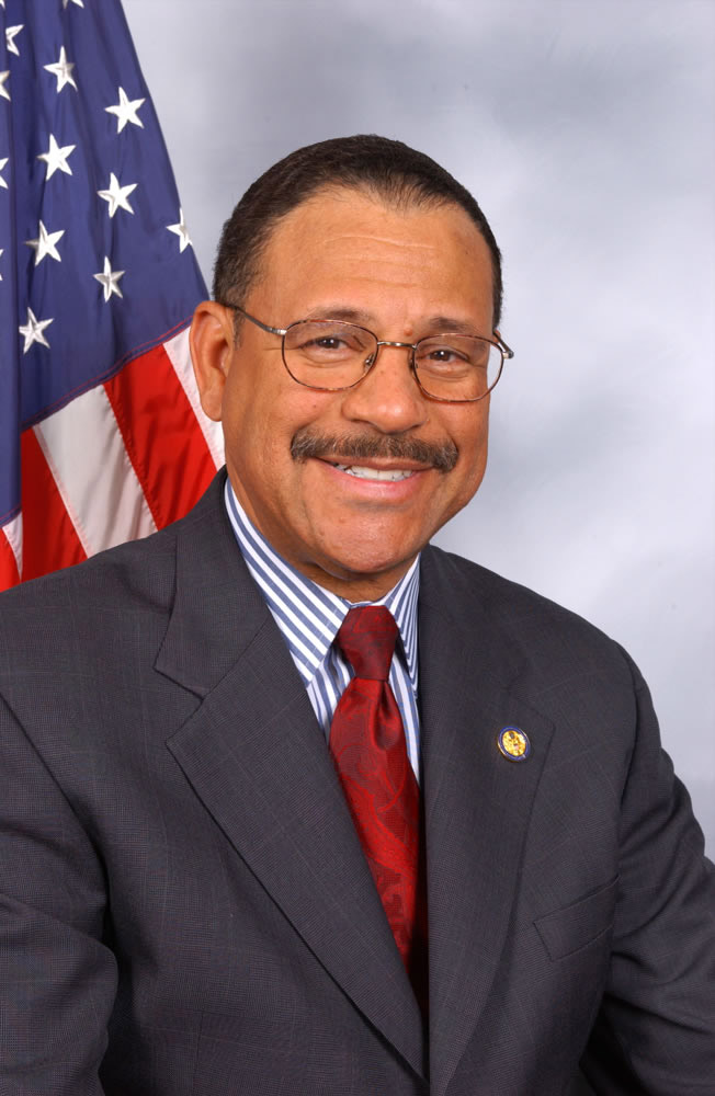 Sanford Bishop, member of the United States House of Representatives.